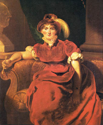 Portrait of Caroline of Brunswick (1768-1821)